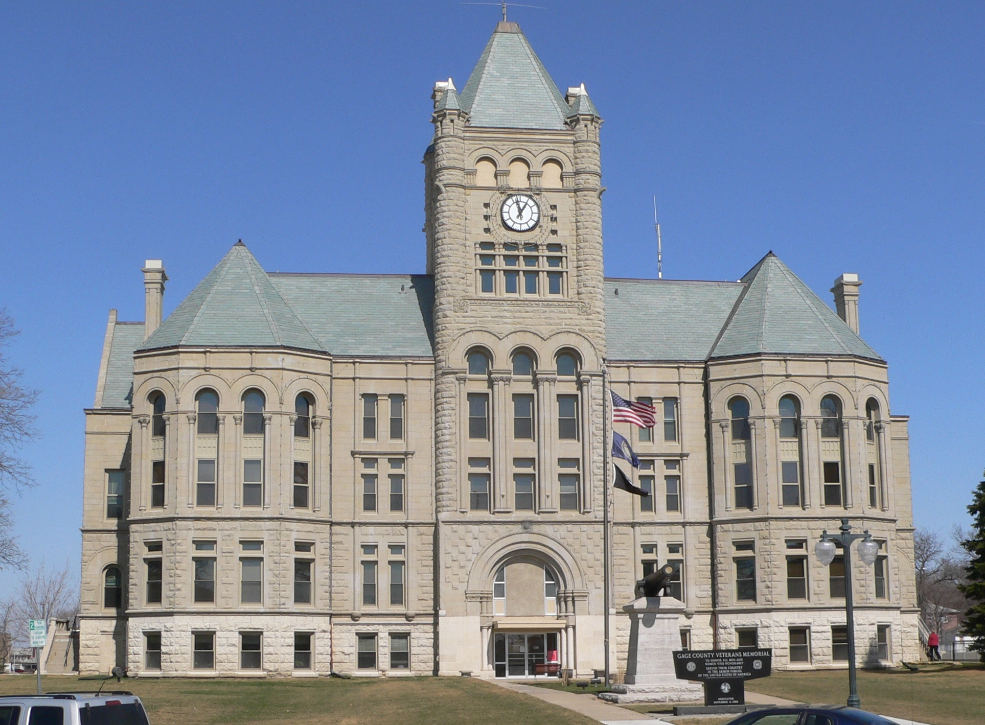 Gage County courthouse, located between Grant and Lincoln Streets and between 6th and 7th Streets in Beatrice, Nebraska; seen from the south.